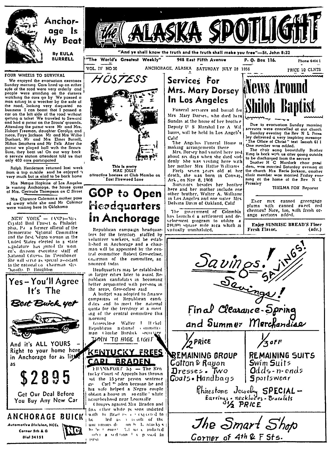 Front page of The Alaska Spotlight, Alaska's earliest African-American newspaper, from July 28, 1956.